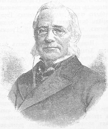 Friedrich Max Müller